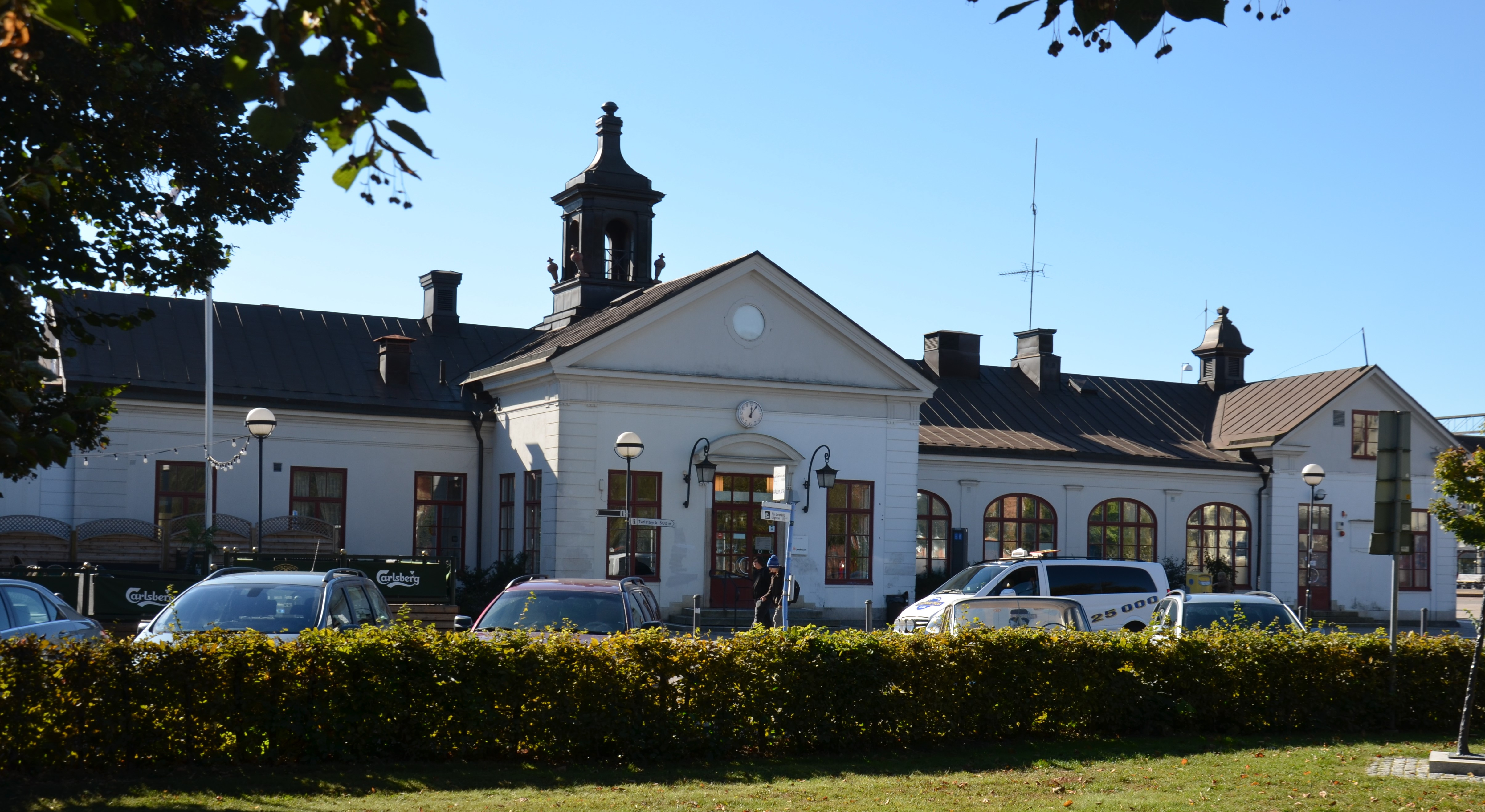 Railway station at Katrineholm in Sweden